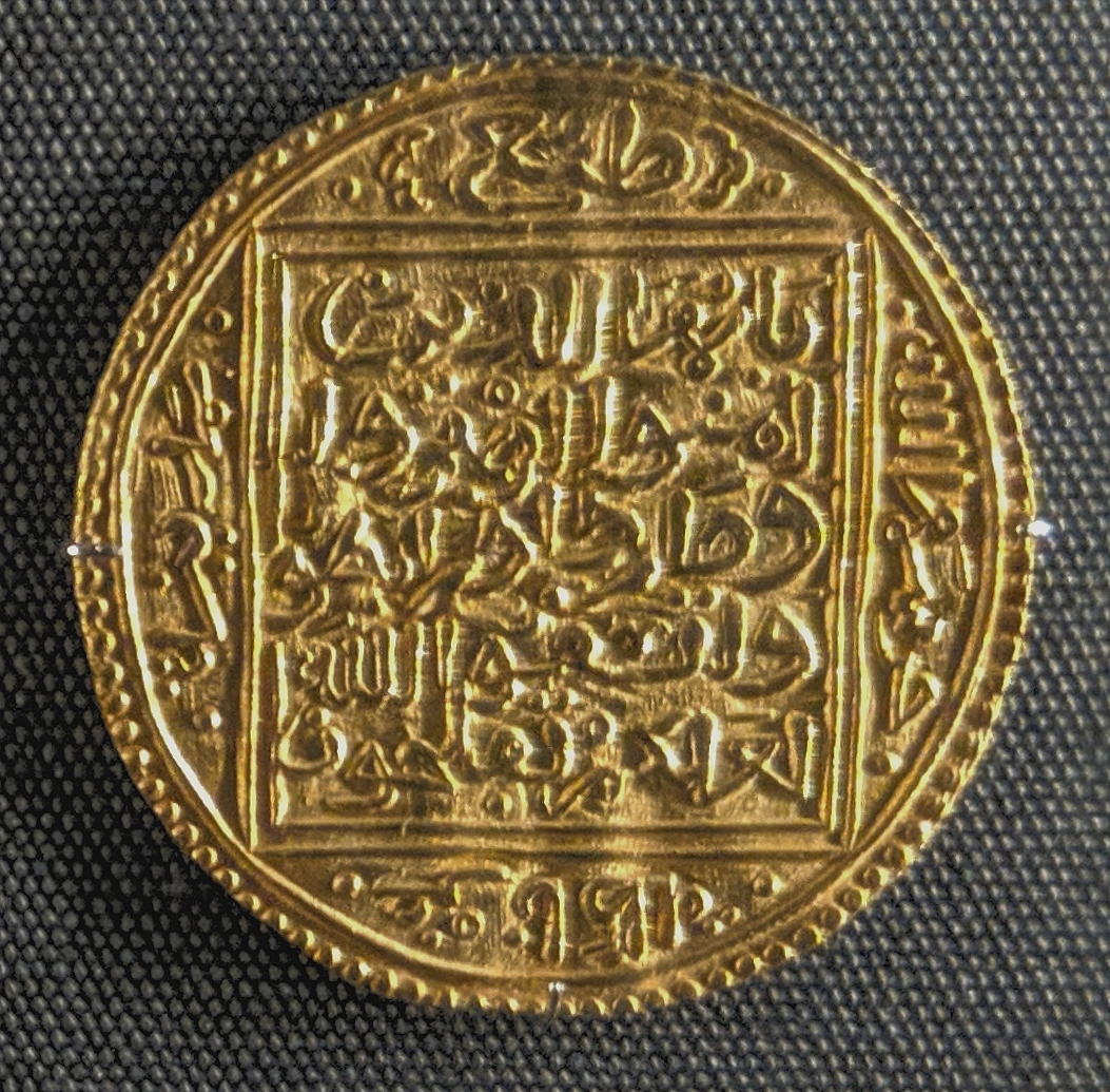 Gold dinar of Abu ‘Abd Allah Muhammad V al-Ghani billah ibn Yusuf I ibn Isma‘il I, (755-760H/1354-1359 AD; 763-793 H/1362-1391 AD) struck in Granada between 763-793 H (1362-1391 AD) Photograph taken by me in the David Museum. More information about this coin